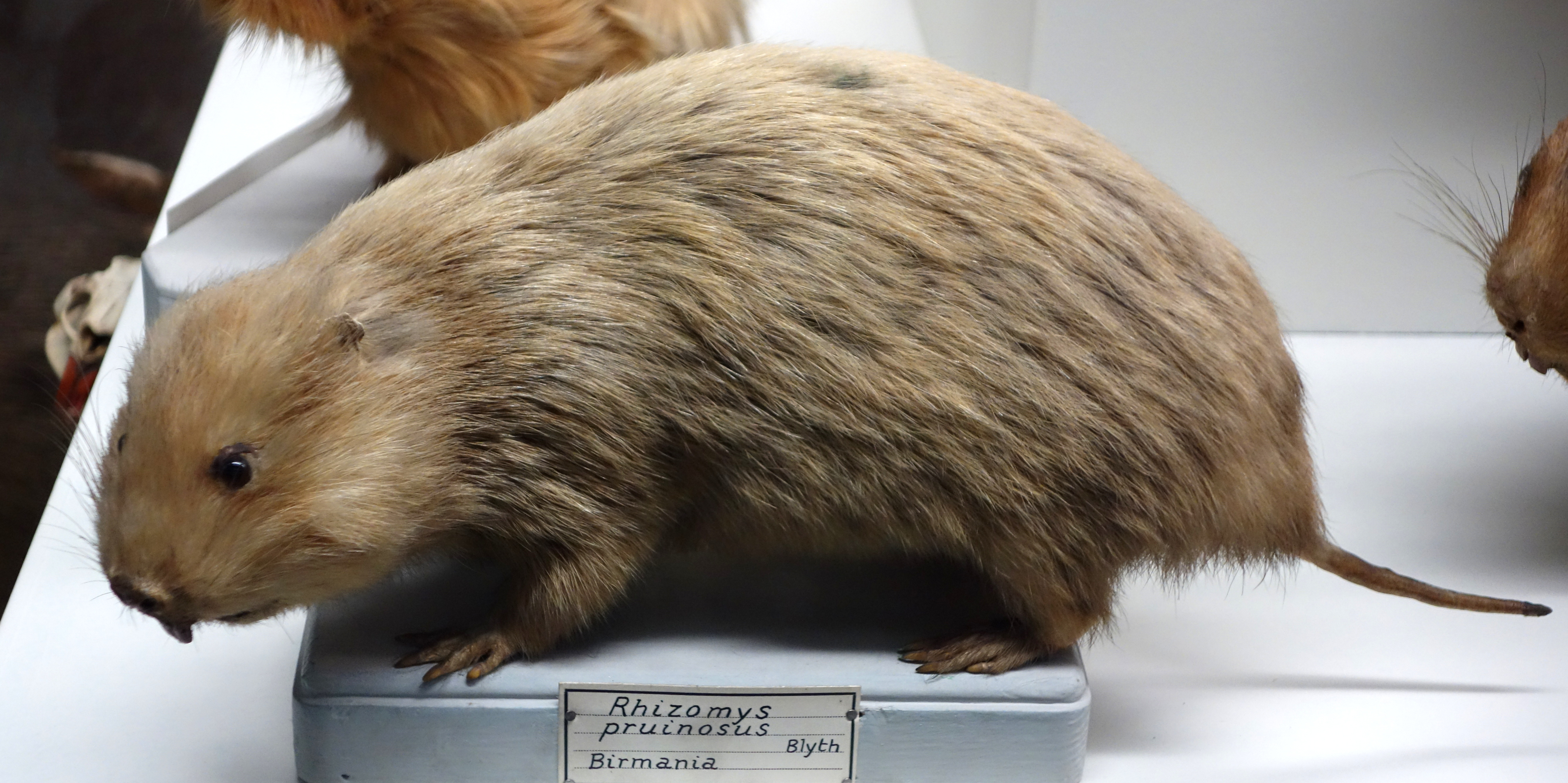 Exhibit in the Museo Civico di Storia Naturale di Genova, Via Brigata Liguria, 9, 16121, Genoa, Italy.